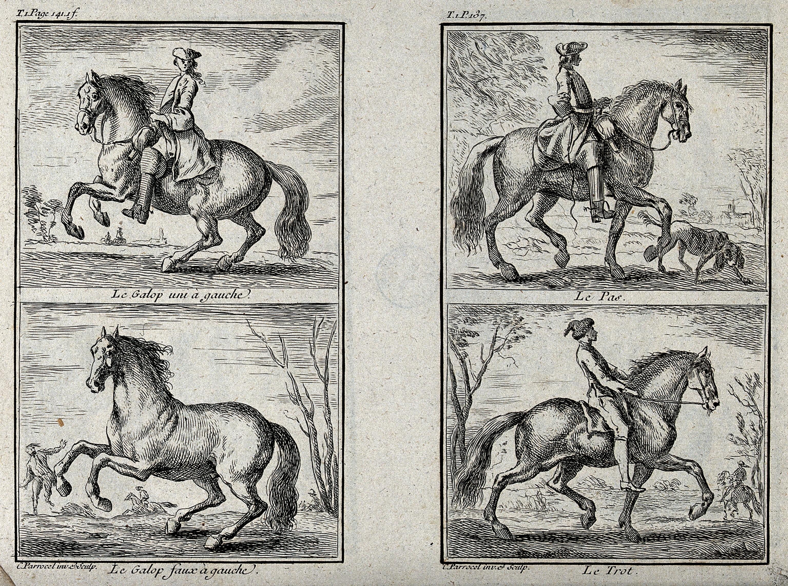 A horseman showing three different gaits with his horse, including the gallop, the pas and the trot and a horse galloping alone. Etching by C. Parrocel. Iconographic Collections Keywords: Charles Parrocel